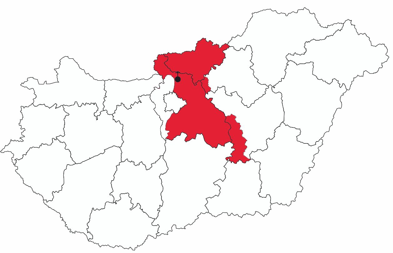 Map of the Roman Catholic Diocese of Vác, Hungary.